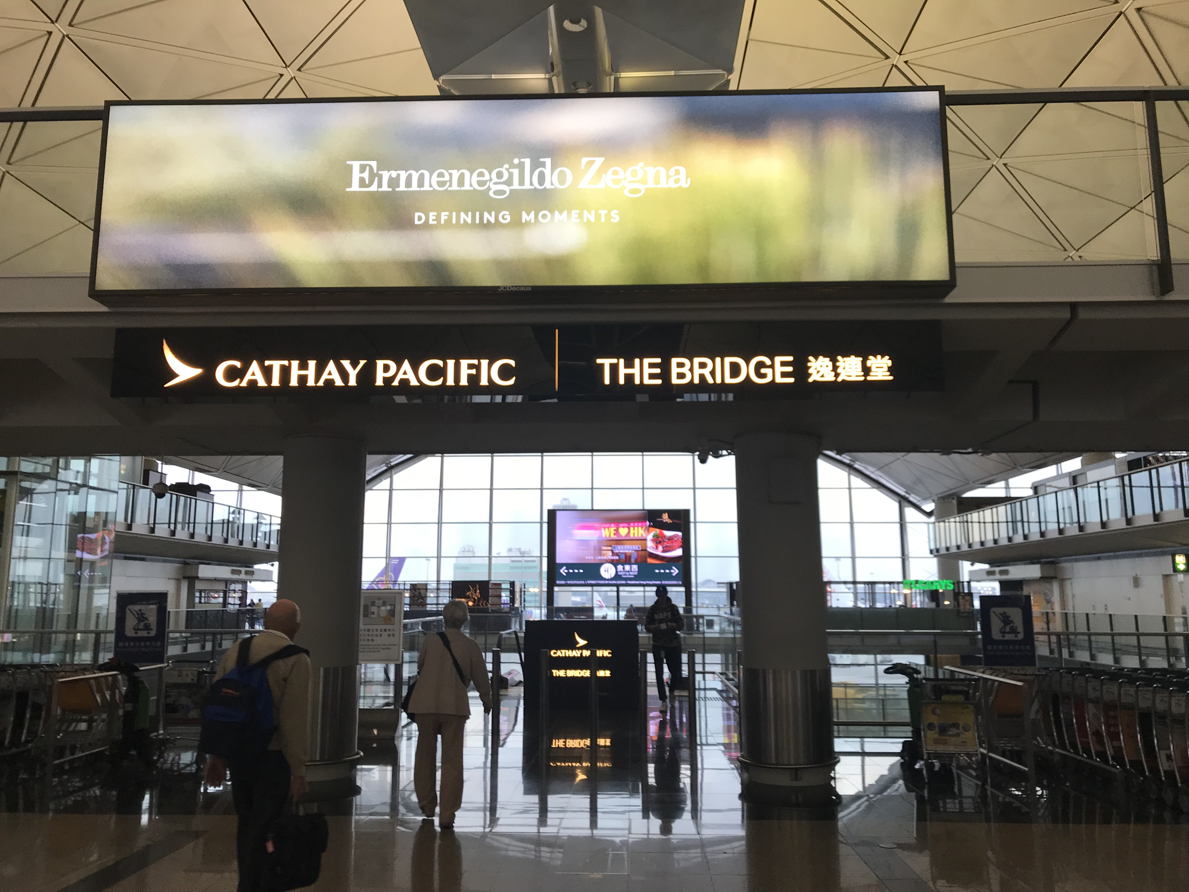 201805 Cathay Pacific The Bridge Lounge at HKG